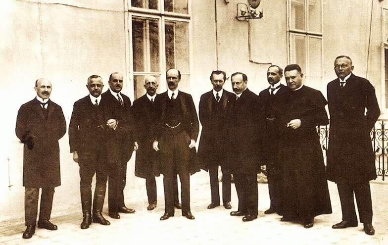 The Bethlen Government, 1921